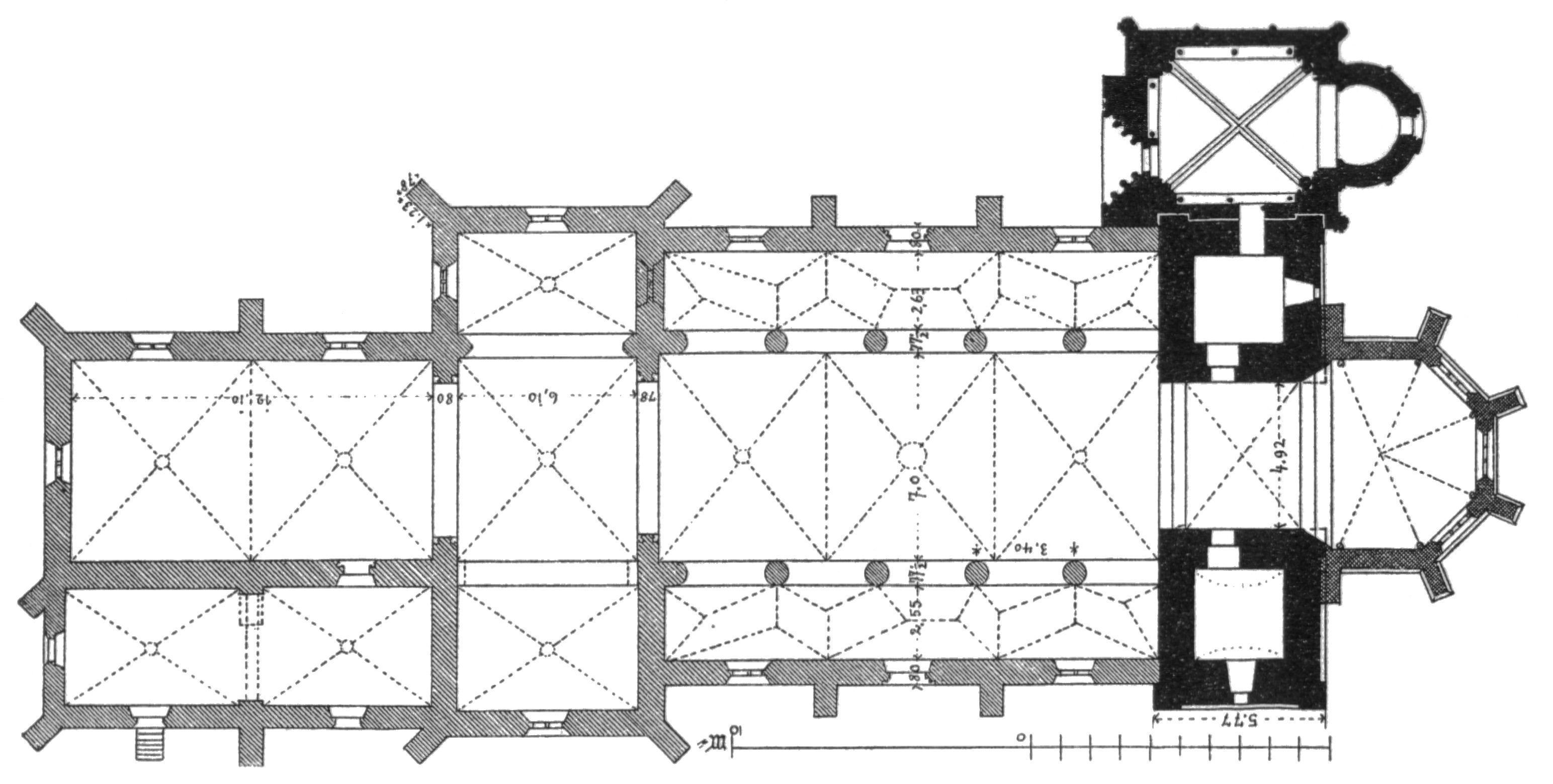 The protestant church in Murrhardt. Ground plan, rotated 90 degrees